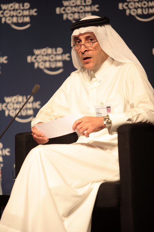 Akbar Al Baker, CEO of Qatar Airways since 1997.